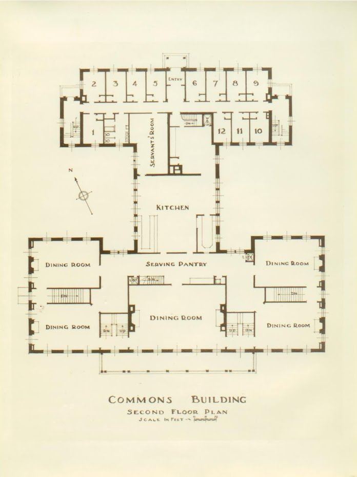 Floor Plan of the Second Floor of the Commons Building at Bennington College from c. 1931.